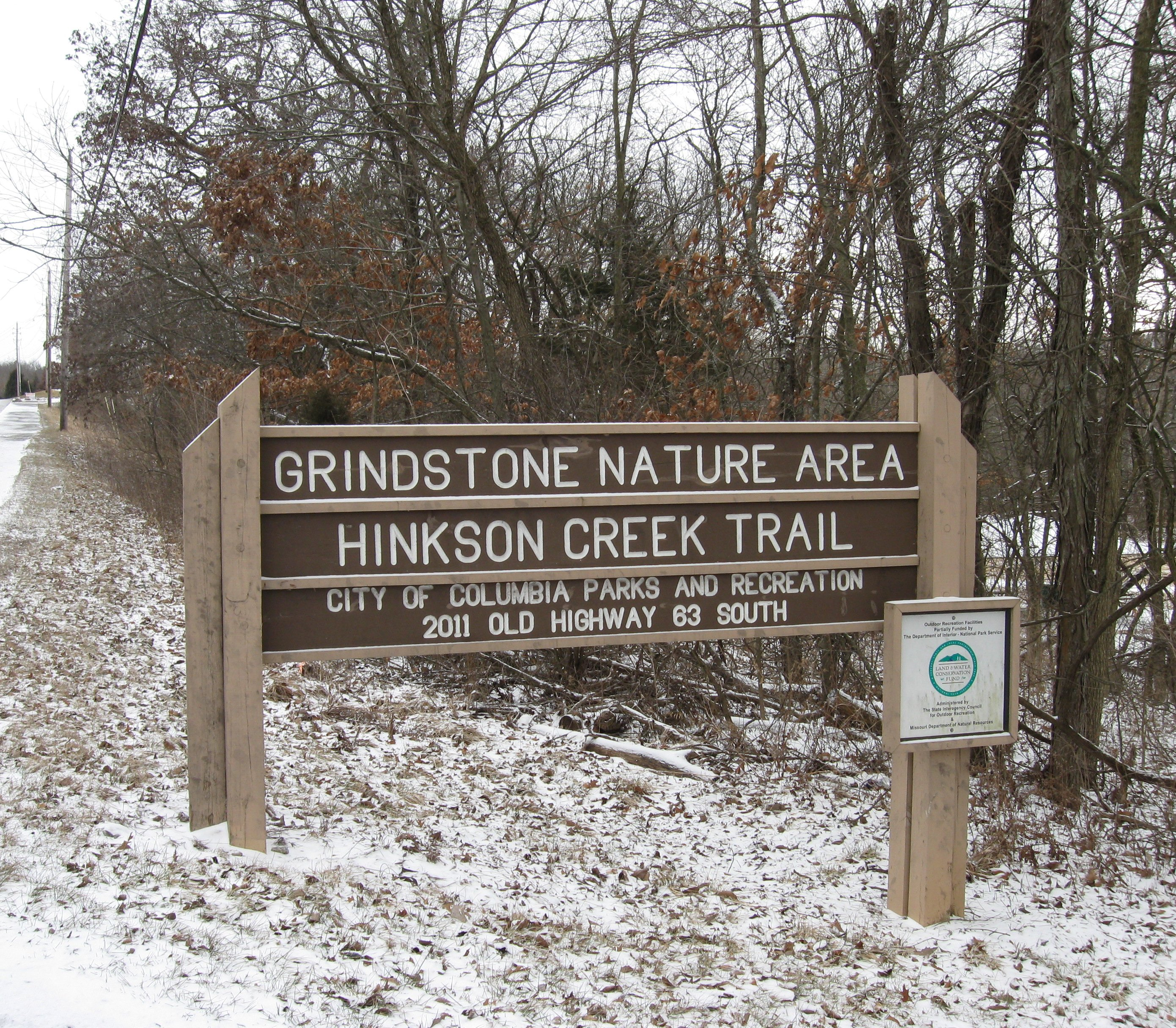 Photo of the sign at the entrance to the Grindstone Nature Area in Columbia, Missouri.